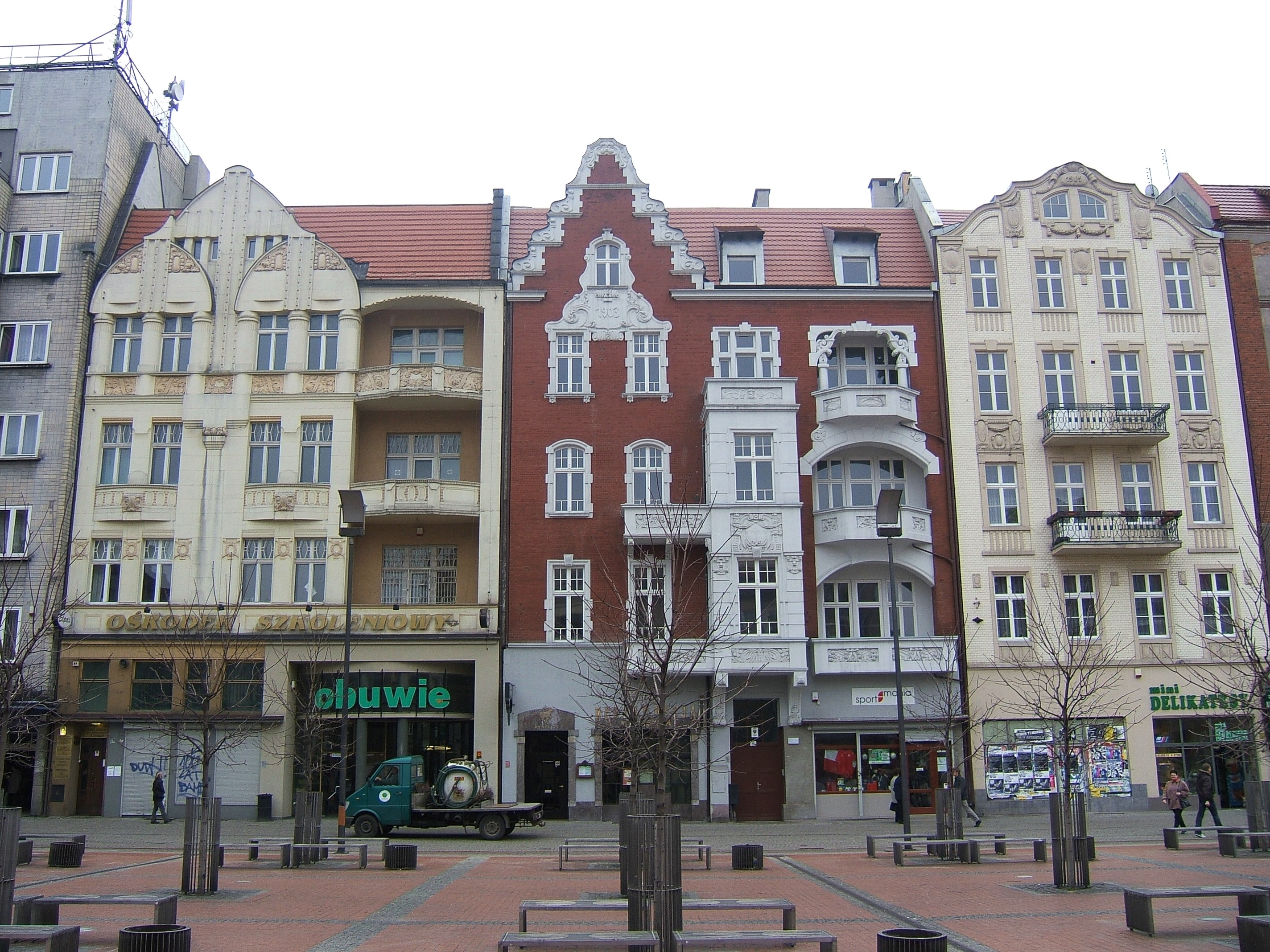 Buildings at the market square in Bytom.